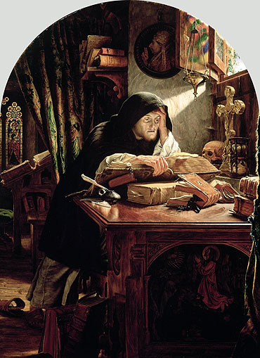 depicts Martin Luther discovering the doctrine of Justification by Faith.